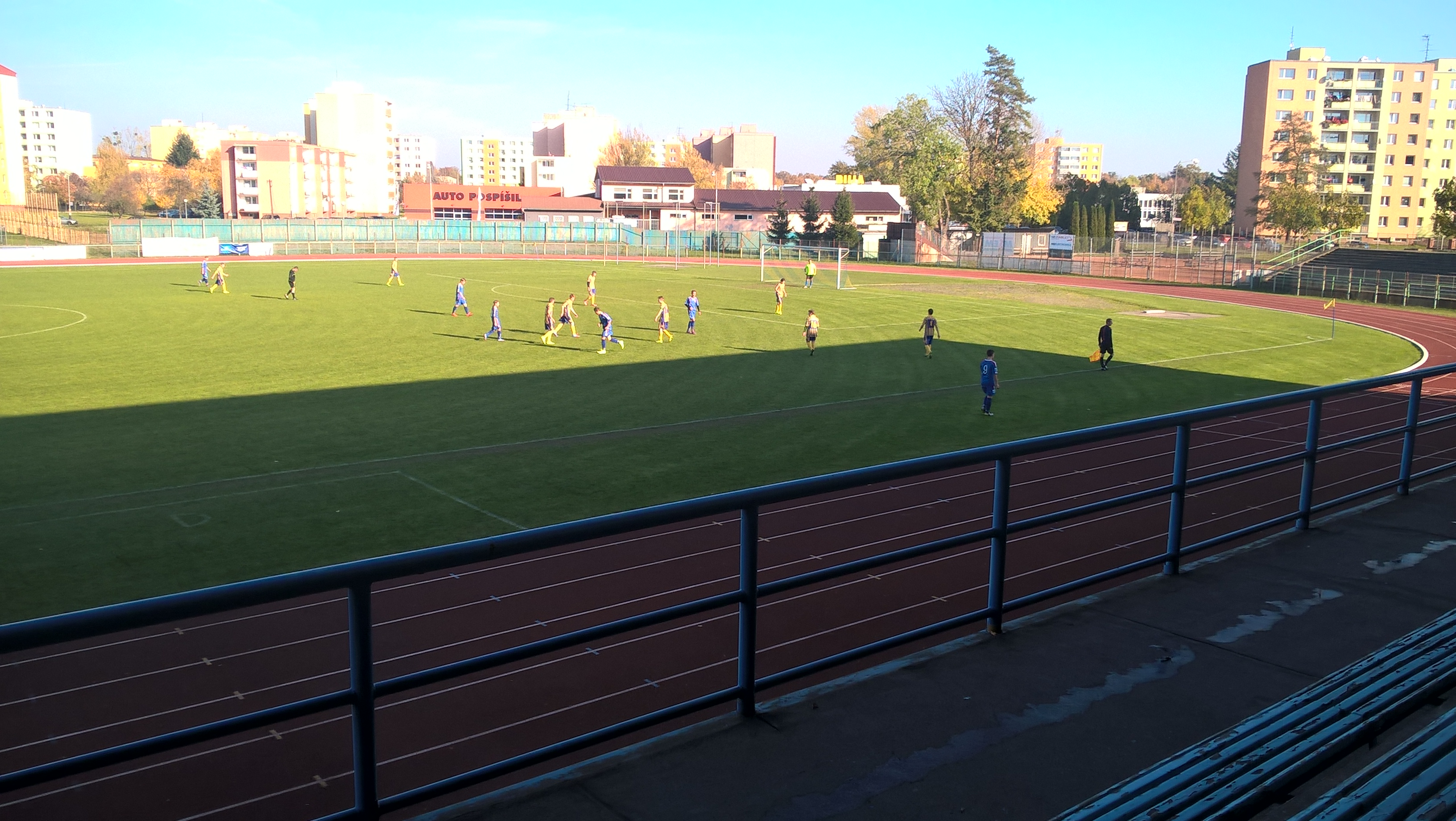 Football stadium in Přerov